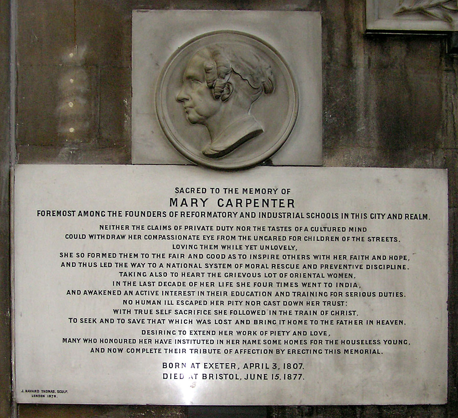 The monument to Mary Carpenter (1807-1877) in Cathedral, Bristol, England. In the mid-19th century the Bristol streets were full of homeless and destitute children 'on the border of a criminal or vagrant life.' Moved by their plight, she looked after them and started schools.